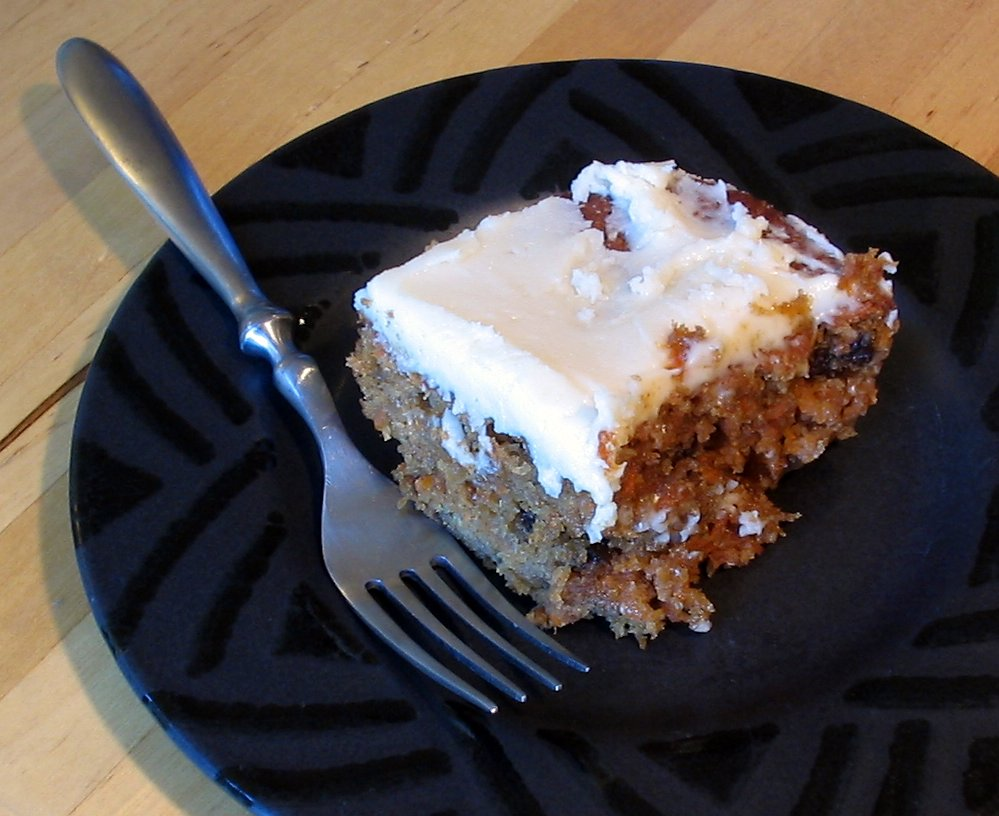 A carrot cake. David Benbennick took the picture on Tuesday, May 3, 2005, at 19:02 local time (18:02 UTC). I made the cake about two hours earlier from the "Carrot Cake with Maple Butter Frosting" recipe on page 180 of Desserts (see References). I left out the walnuts, and used a bit over a cup of raisins to compensate. I only used two cups of sugar in the frosting.